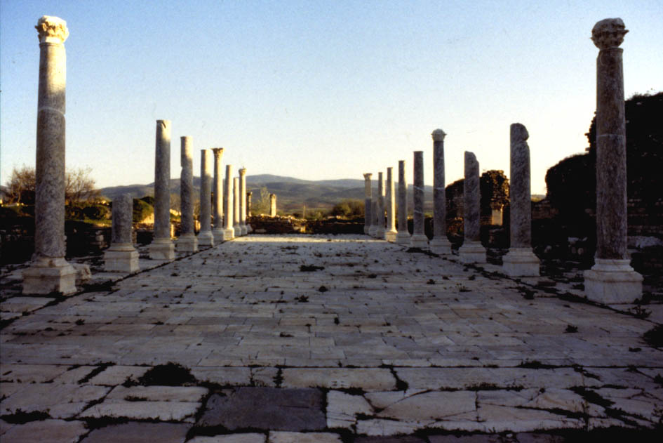 Aphrodisias, Theater Bath